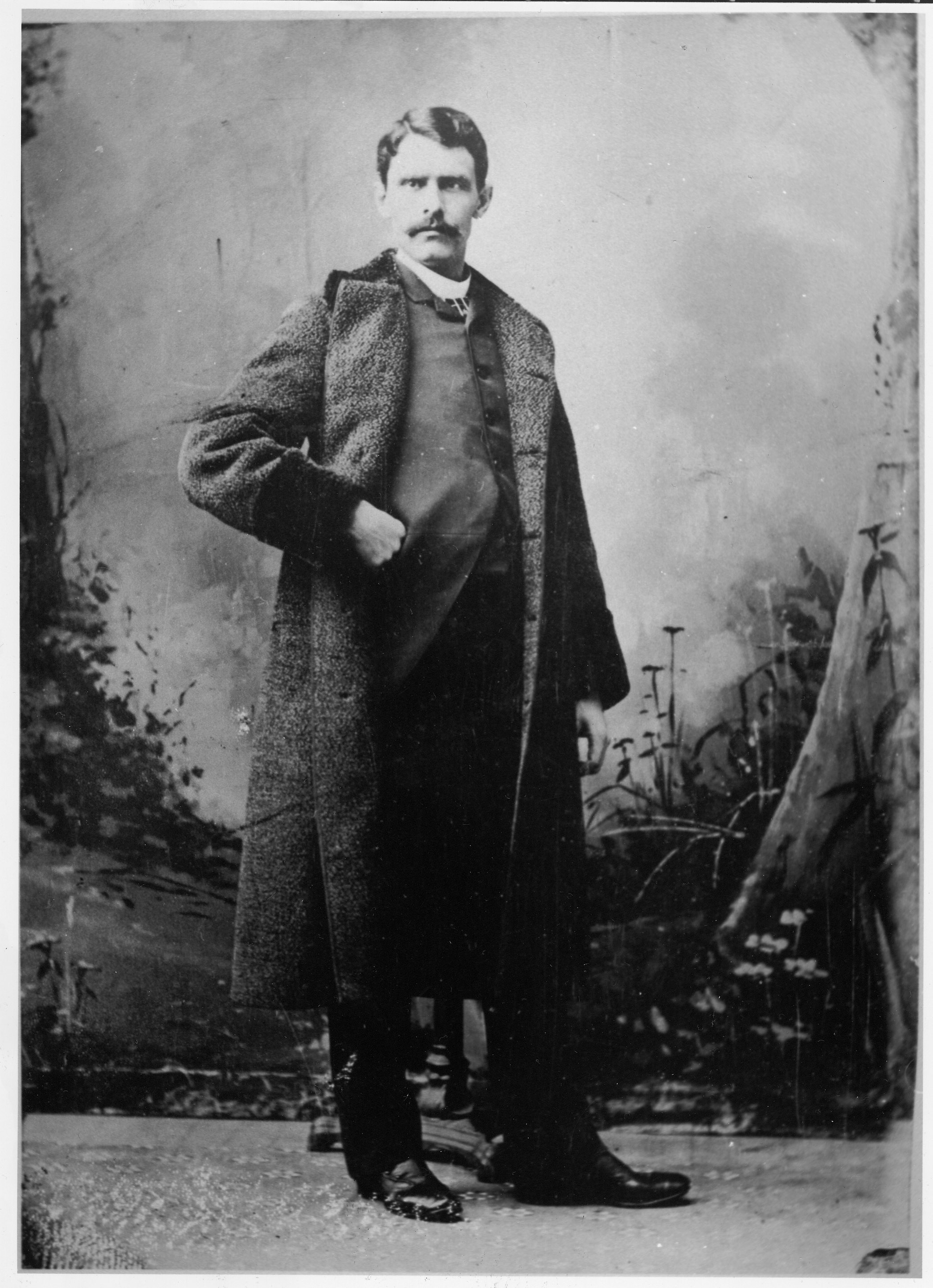 Portrait of Orville Gibson (1856–1918), US luthier